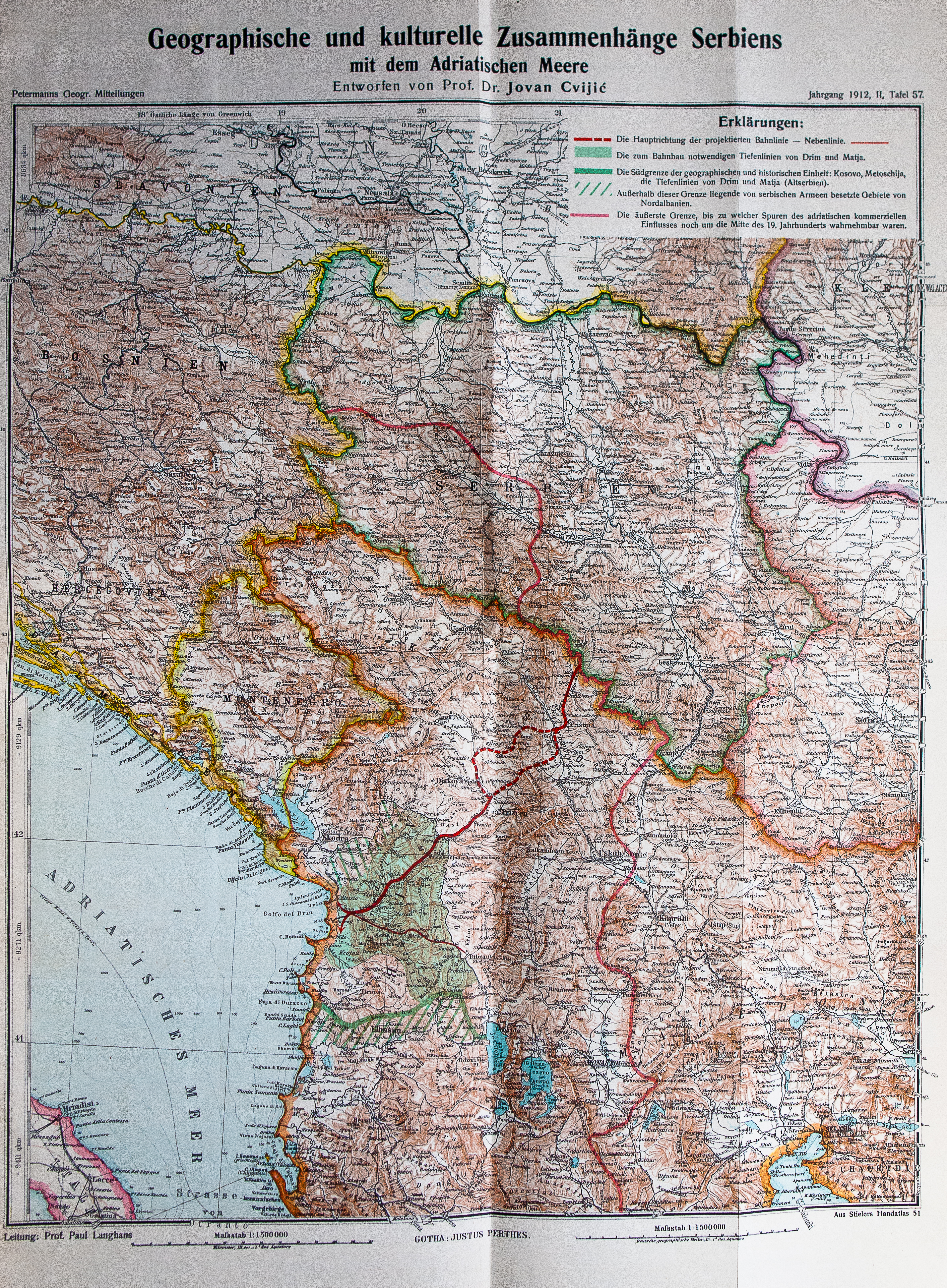 Jovan Cvijic 1912 Der Zugang Serbiens zur Adria